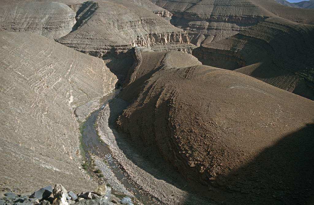 Dadès Gorges in Morocco